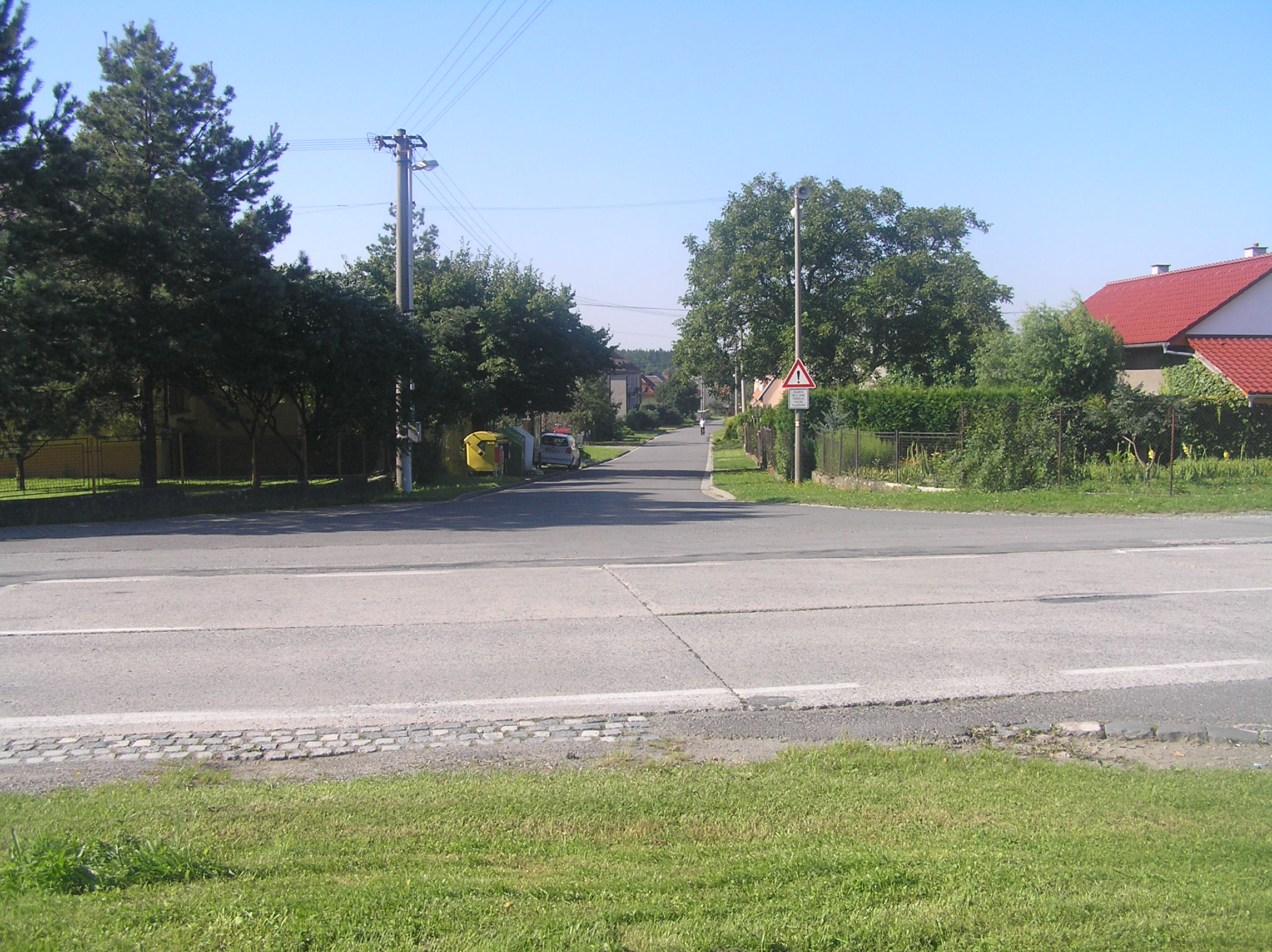 Dolní Újezd, Přerov District, Czech Republic, part Staměřice.